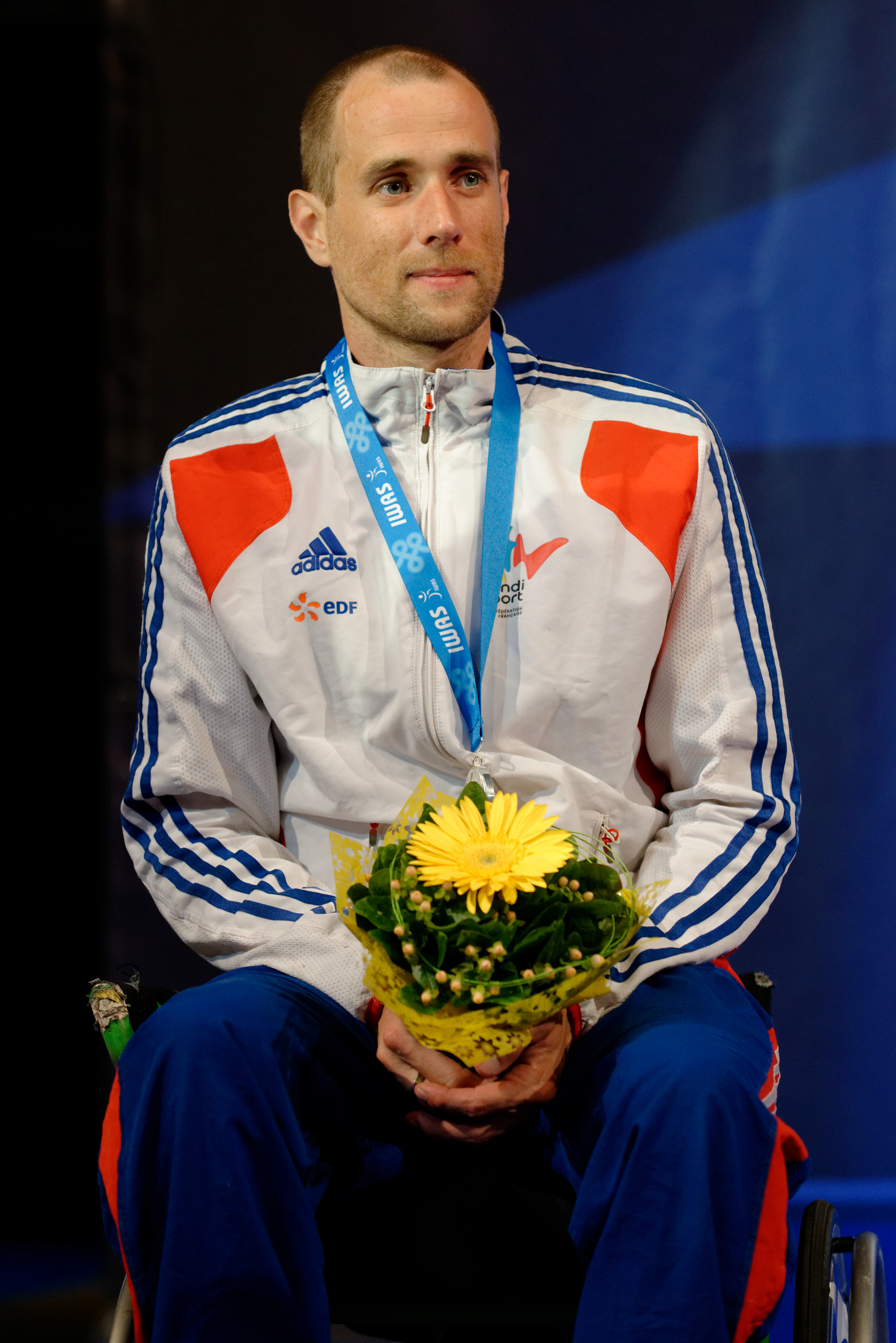 France's Romain Noble on the podium at the men's épée victory ceremony in the 2013 IWAS World Fencing Championships 2013 at Syma Hall in Budapest, 8 August 2013.